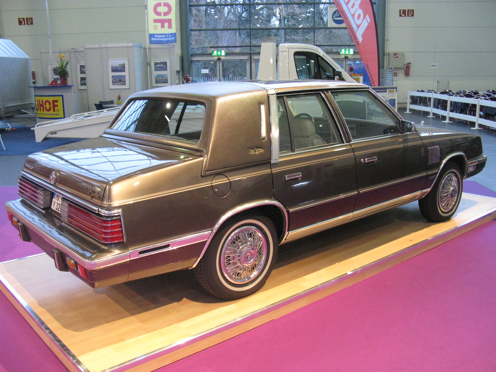 Chrysler New Yorker 2.2 Turbo 1984